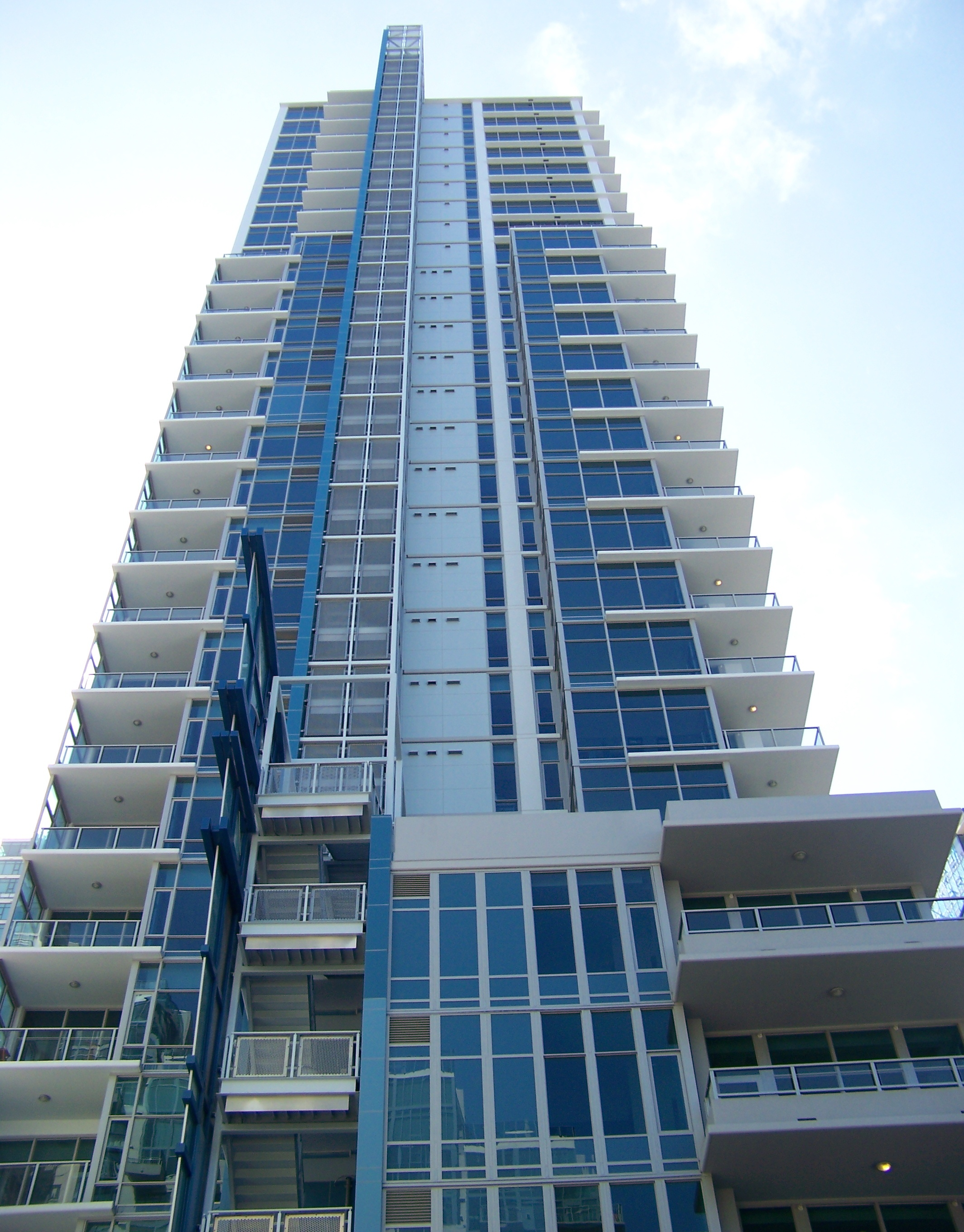 Sapphire Tower skyscraper in San Diego, California. Construction was completed in 2008.